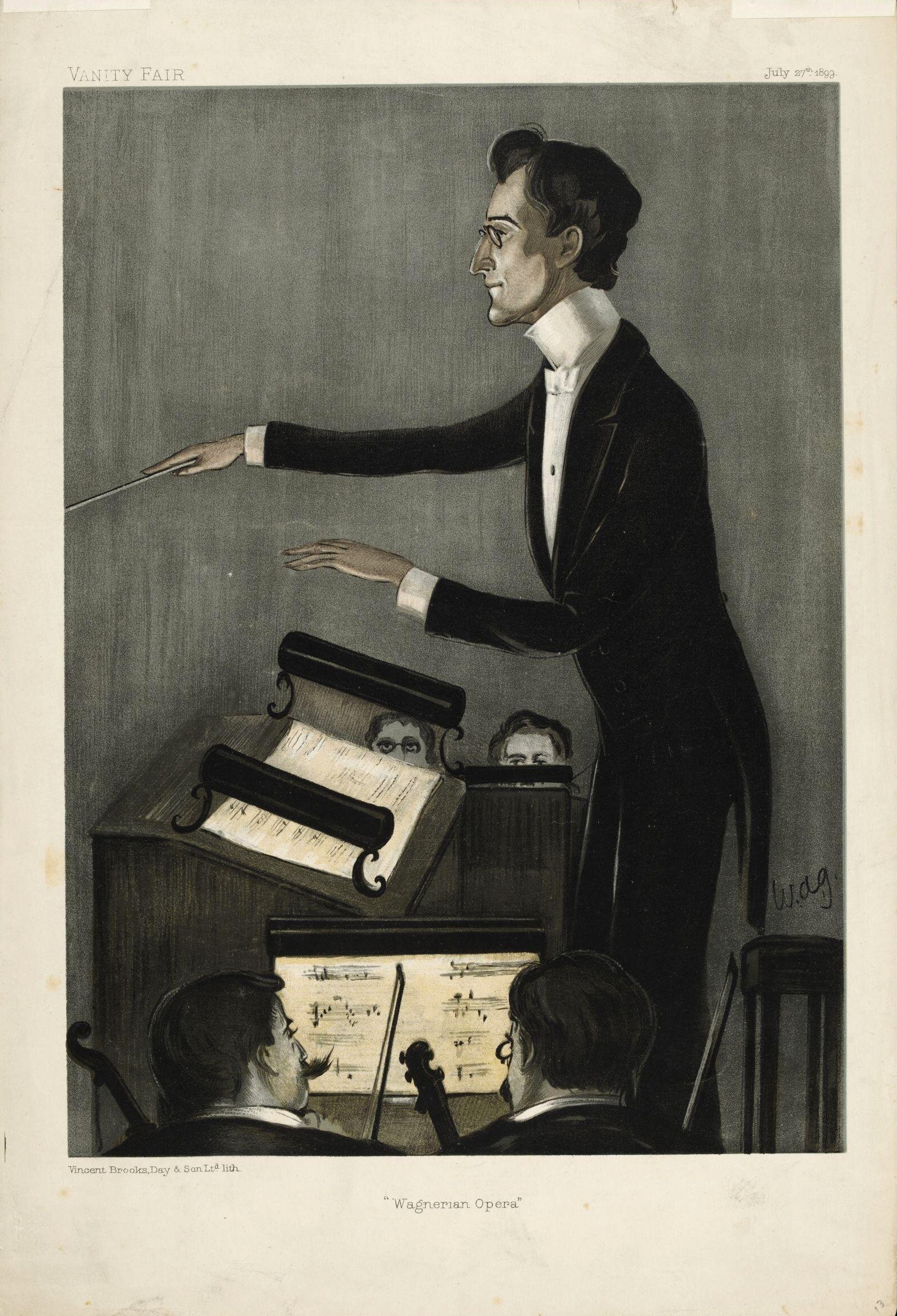 Caricature of German conductor Dr Karl Muck. Caption read "Wagnerian Opera". Biographical note on reverse of print read : He is a young man of quite good appearance and much music. He is also a Doctor of Philosophy; who, have conducted many German Bands with marked ability, became a Conductor of the Imperial Opera : which means a great deal, since in Berlin every conductor must be up to the mark. So they imported him to London to beat time to Wagner's music at the Opera; and during the season just ended he has been quite a success at Covent Garden. He is full of tradition and, with all his talent, he has not yet been over-advertised in England : which is remarkable. Nevertheless, he seems to be the ideal Wagner conductor : subtle, scholarly, and even spiritual. He knows the value of a pause, he knows music, and he is an artist. He as at once full of reserve force, yet less emotional than most of his predecessors : and his admirers speak of his intelligence as almost excessive. He has a handsome Austrian wife who professes much ignorance of music.